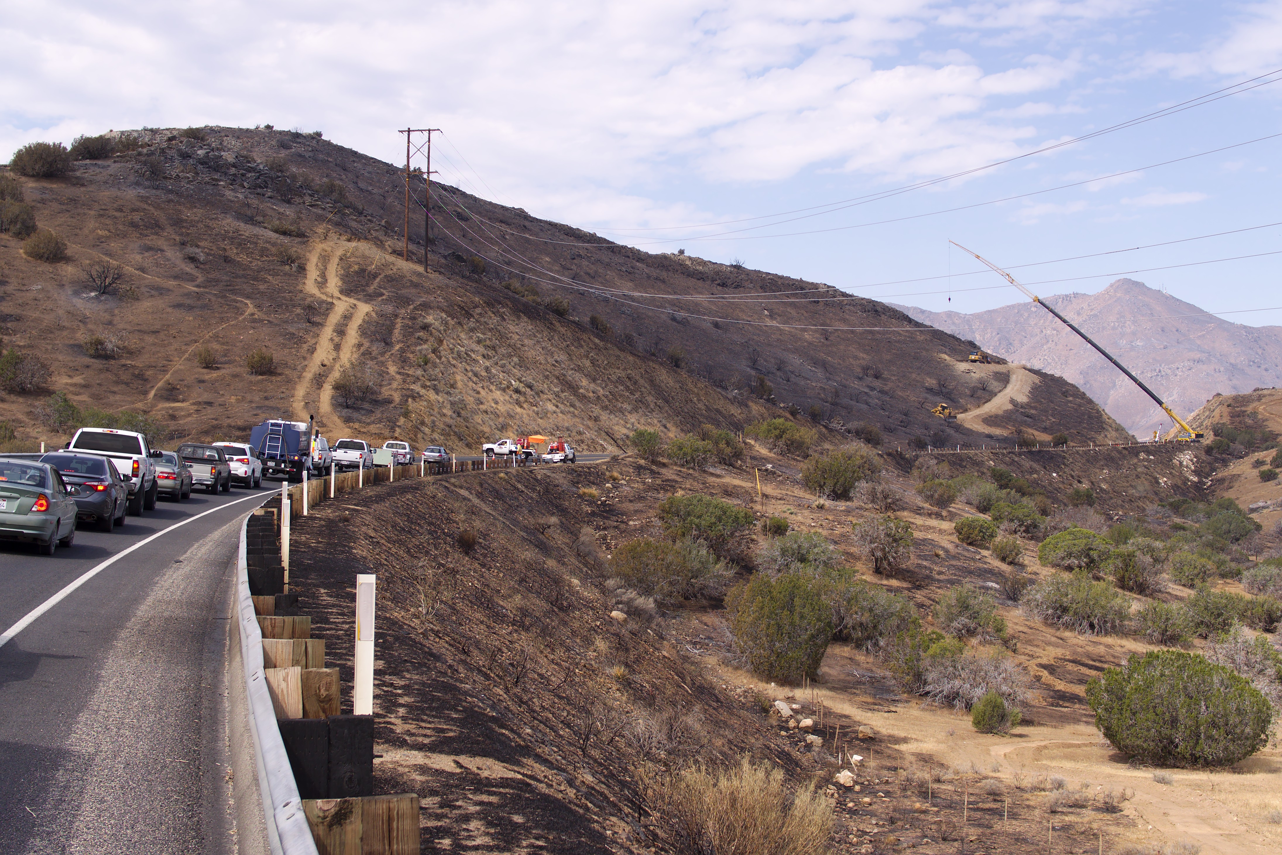 Partially open California State Route 178 looking west from the community of South Lake during cleanup from the Erskine Fire